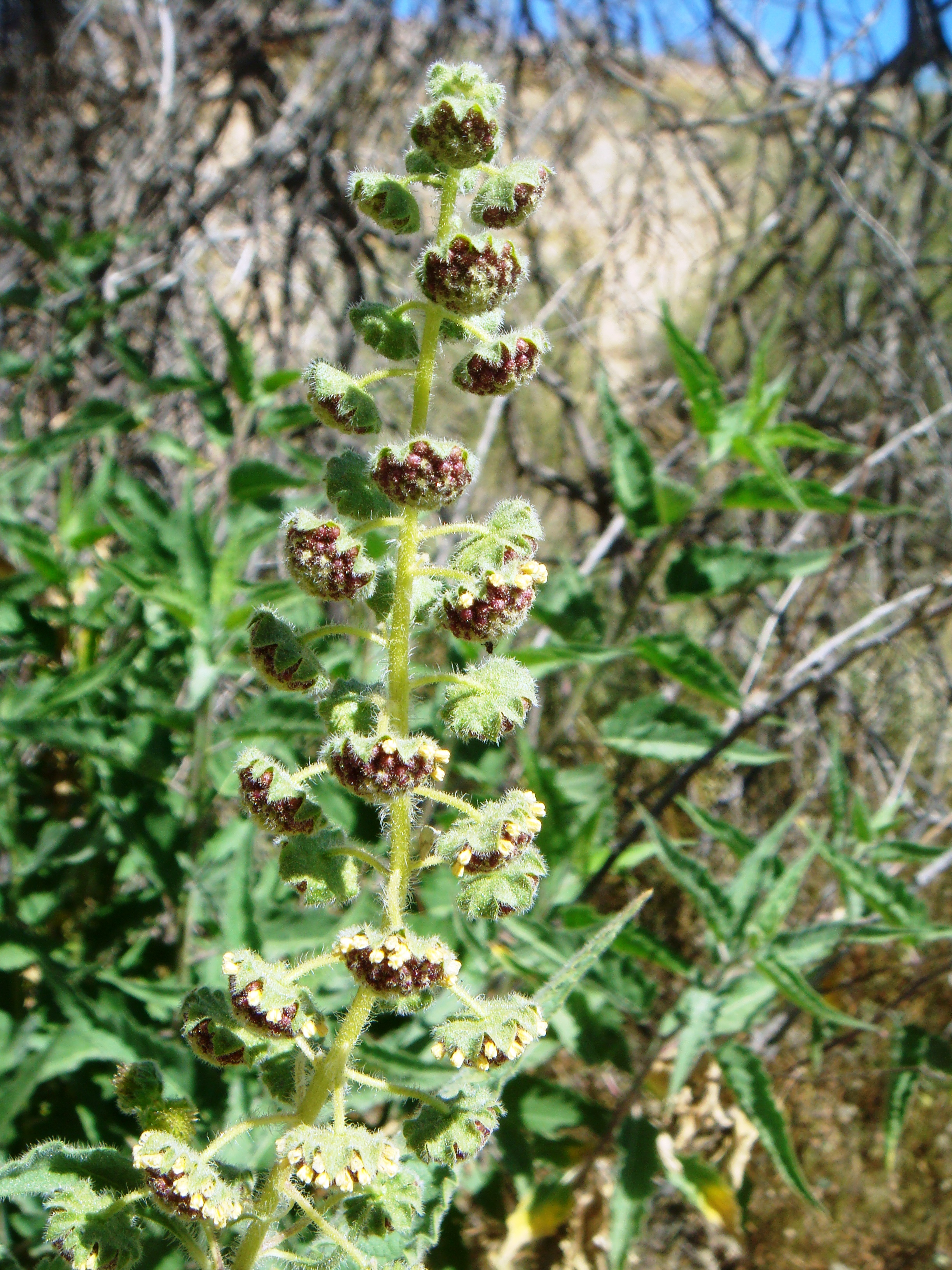 Ambrosia ambrosioides, Pima Wash Trail, South Mountain, Phoenix, Arizona